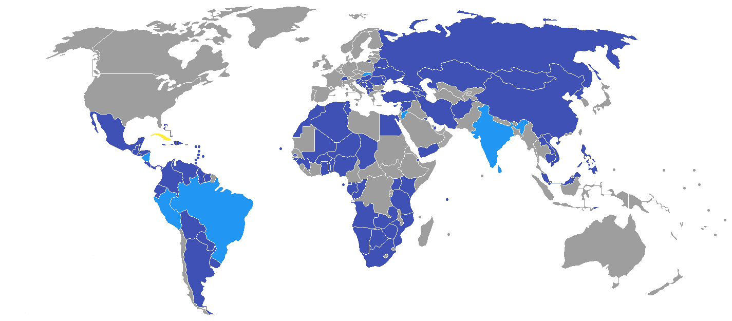 Visa policy of Cuba for diplomatic and service category passport holders Cuba Diplomatic and service category passports Diplomatic passports only